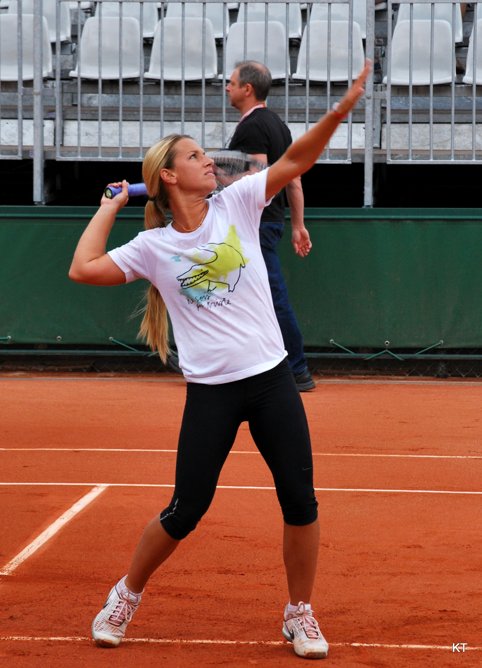 Dominika Cibulková practising before her third round match with María José Martínez Sánchez on Day 6 of the French Open 2012.